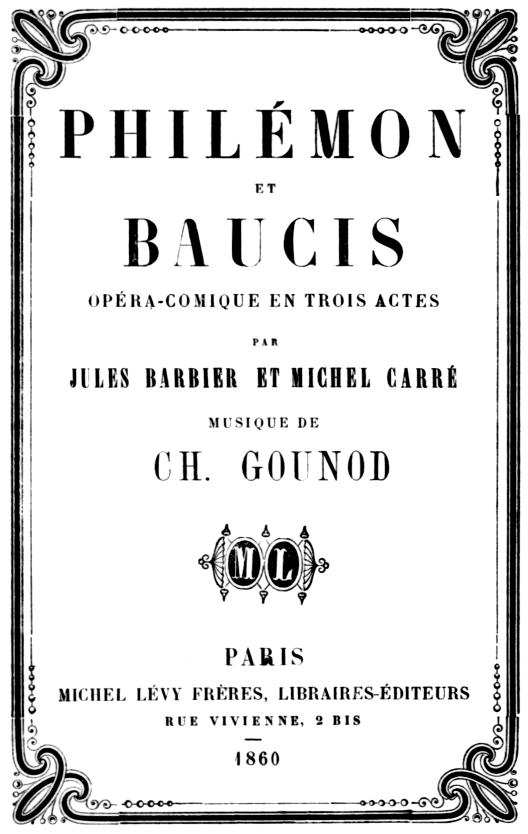 Gounod - Philémon et Baucis - title page of the three act french libretto, Paris 1860